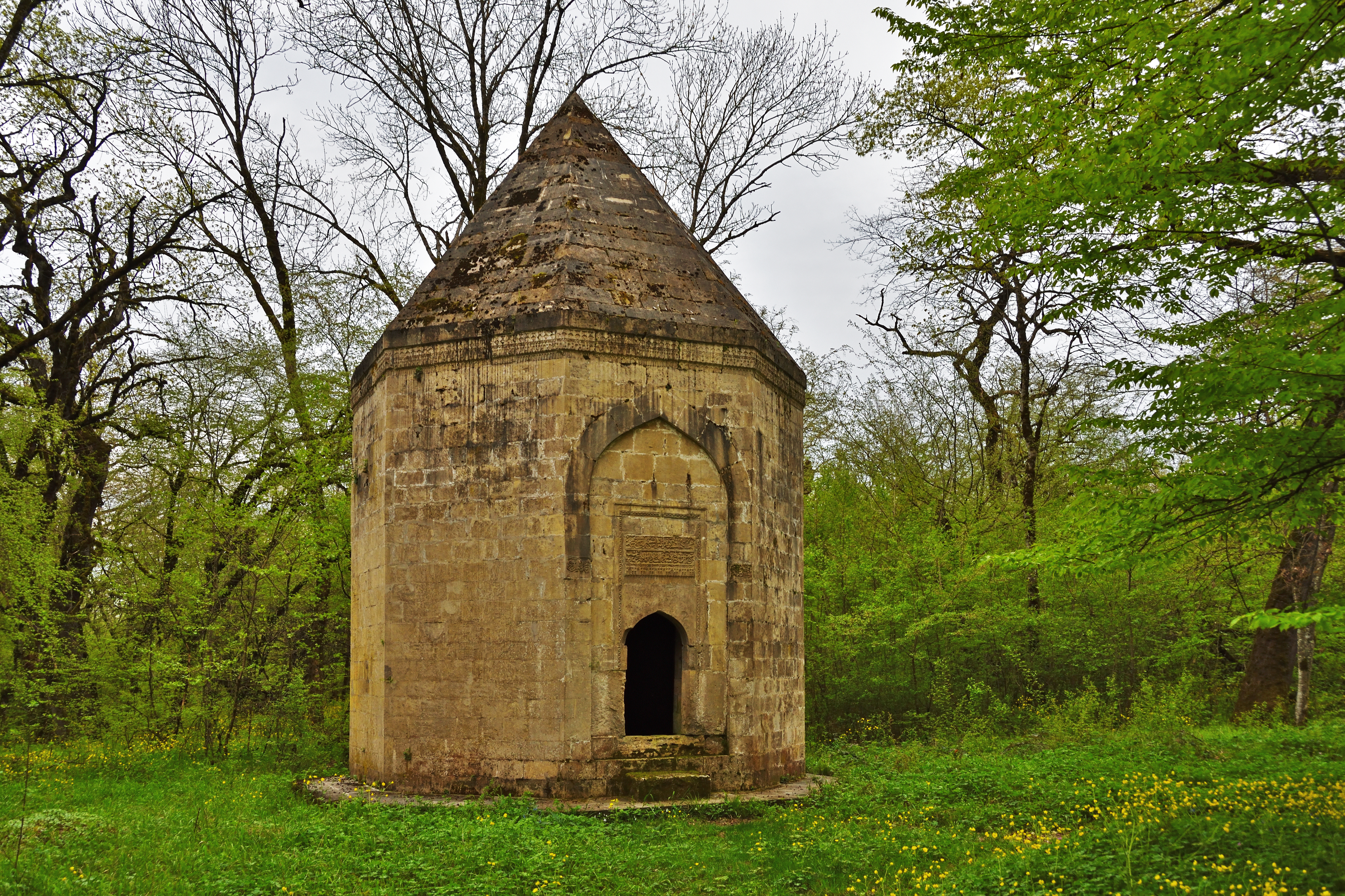 Sheikh Mohammed Tomb, XV century, Hazra village, Qabala district, Azerbaijan